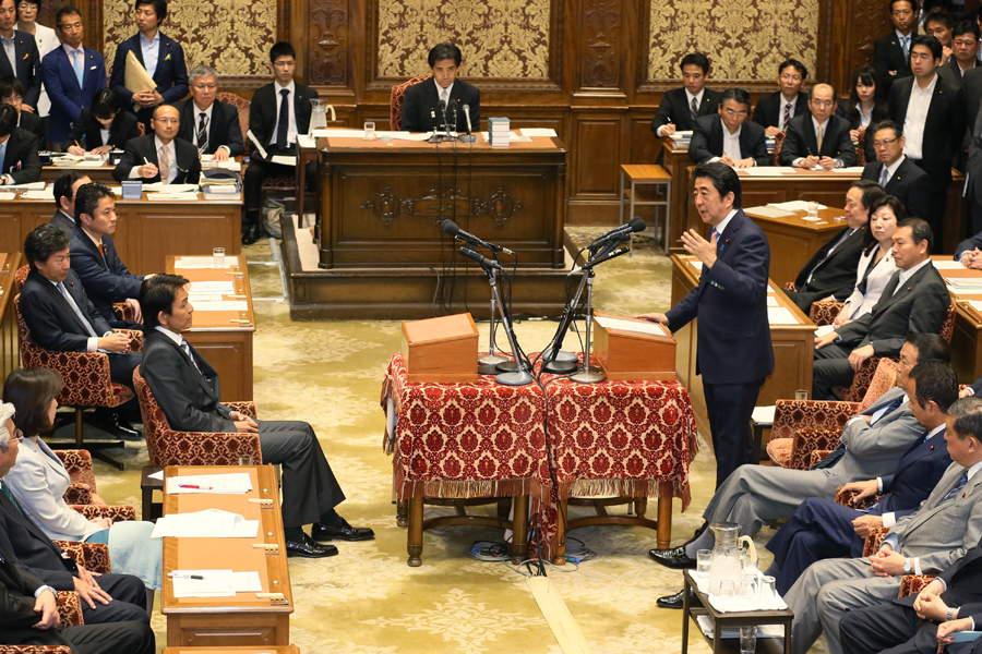 Yorihisa Matsuno, President of Japan Innovation Party, debated with Shinzō Abe, Prime Minister, at the Committee on Fundamental National Policies Joint Meeting of Both Houses at the National Diet Building in Chiyoda Ward, Tōkyō Metropolis on May 20, 2015.